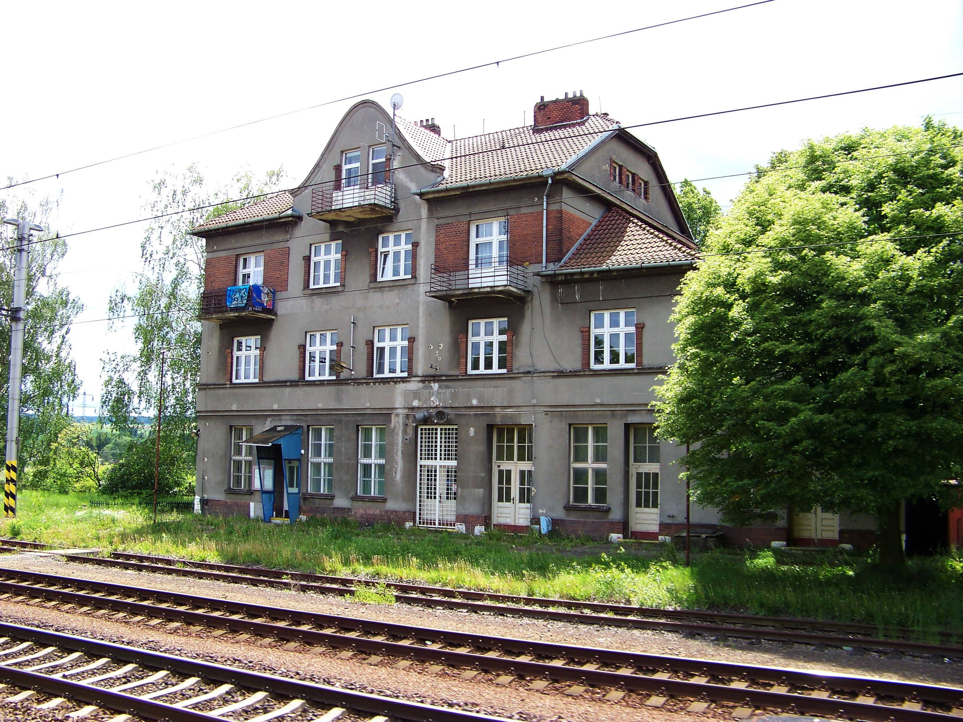 Krasíkov, Ústí nad Orlicí District, Pardubice Region. The old train station building. - OpenStreetMap(Info)